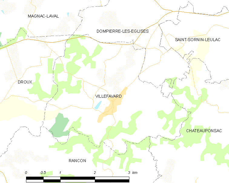 Map of French municipality Villefavard